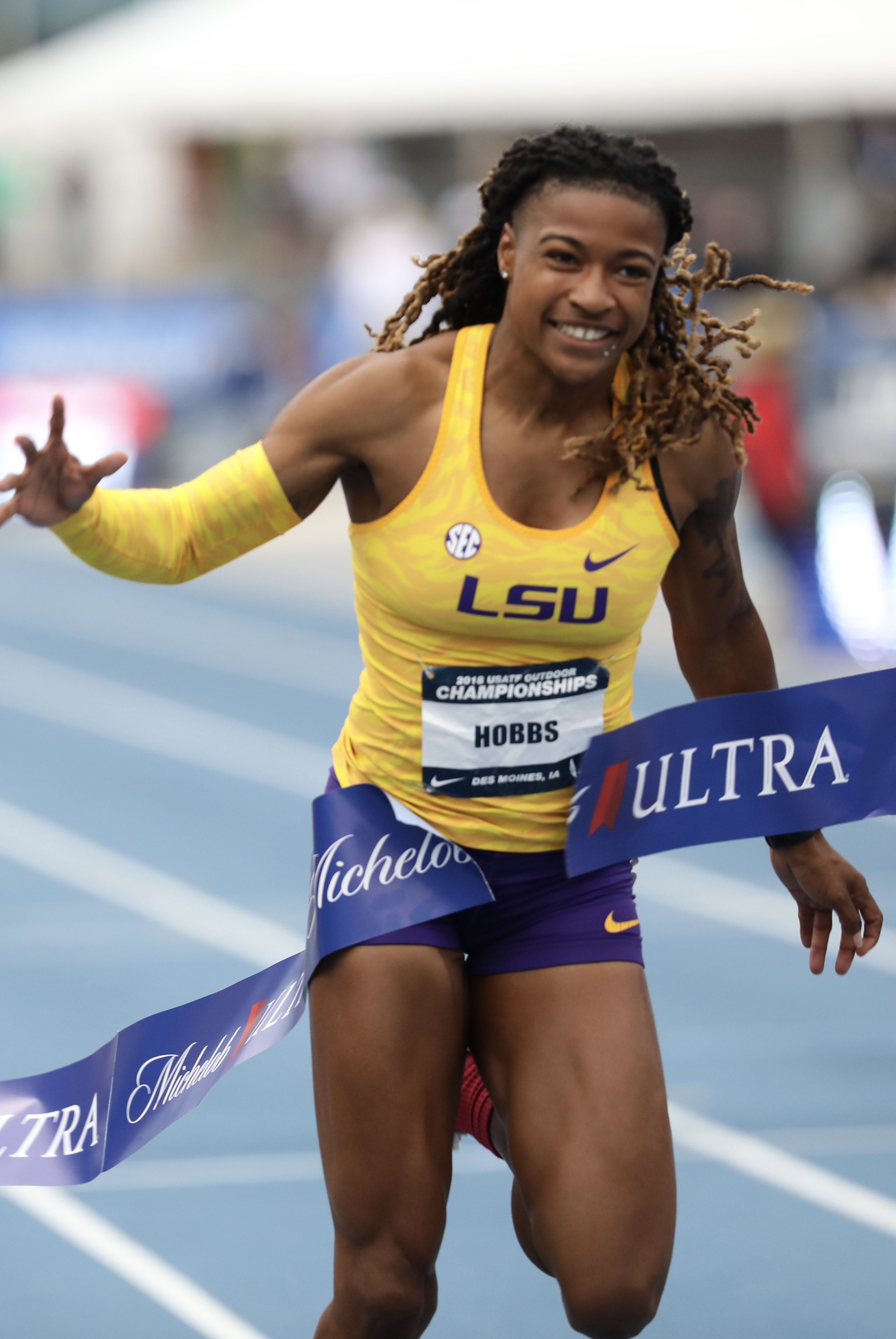 2018 USA Outdoor Track and Field Championships